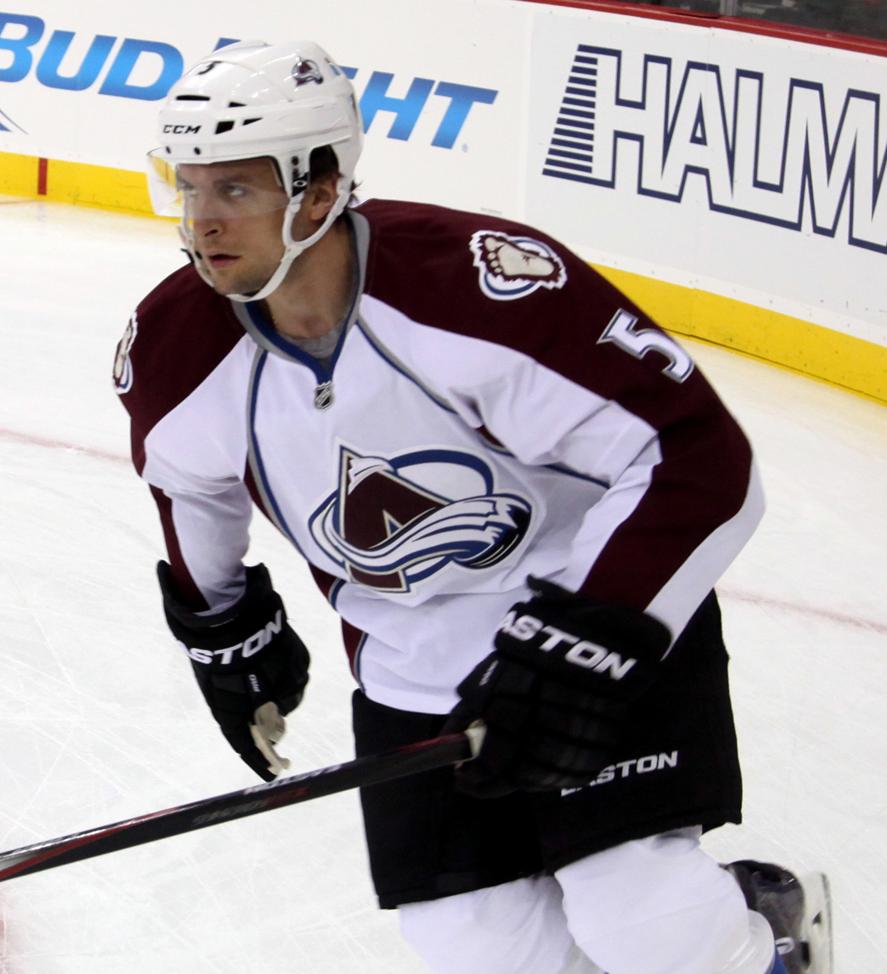 Nate Guenin in November 2014.